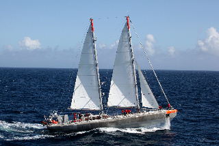 Tara boat